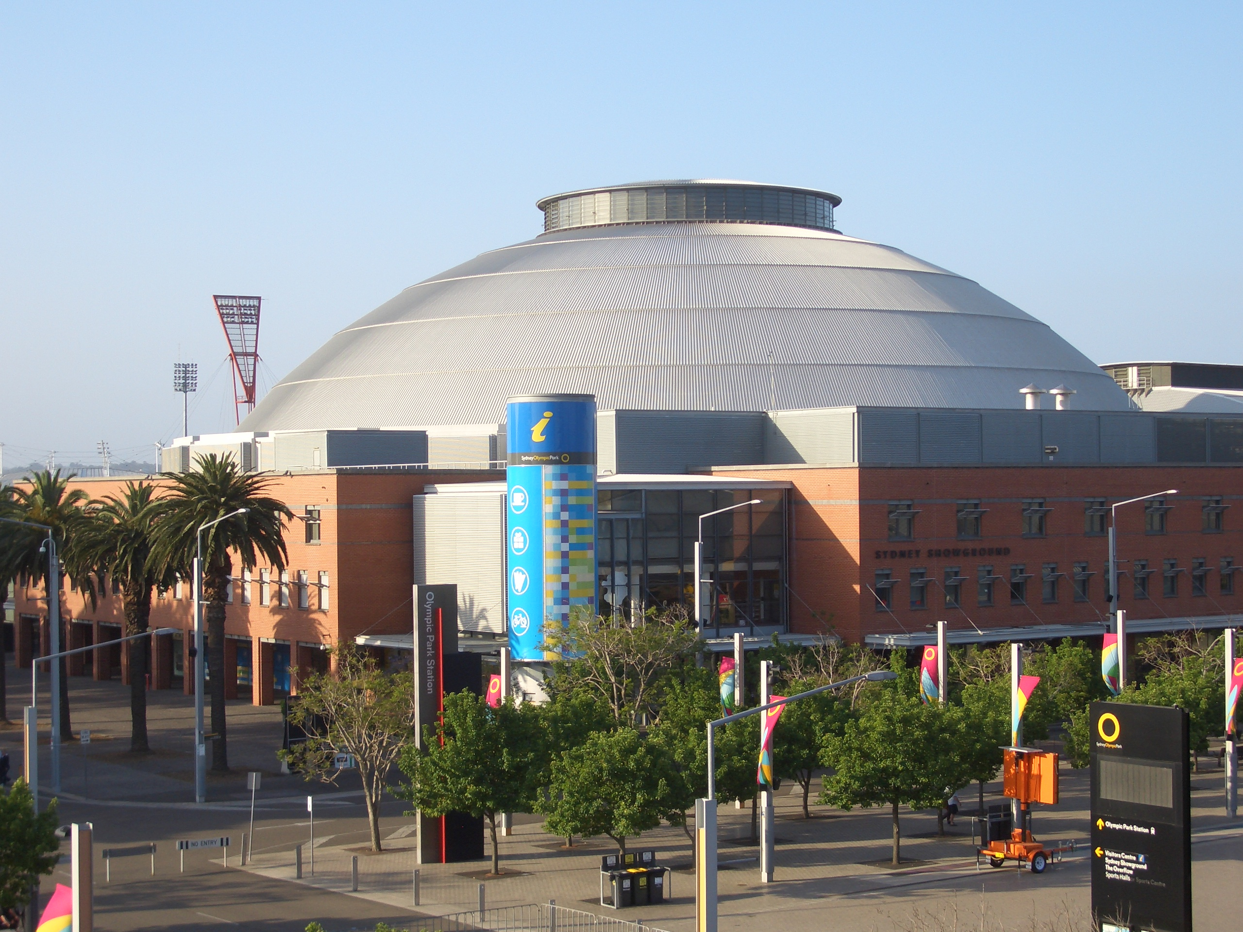 Sydney Olympic Park, Showground_Hall